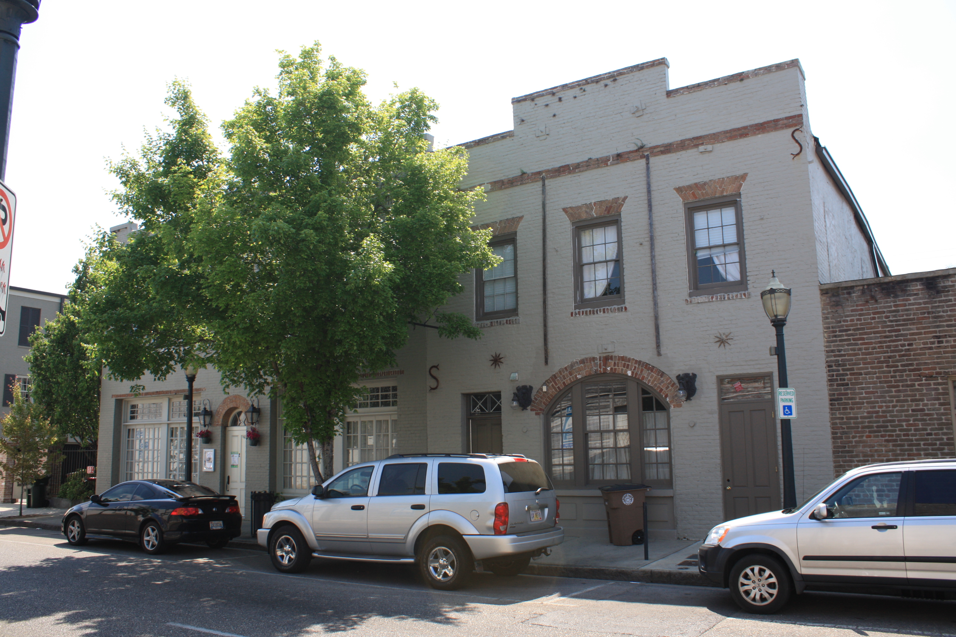 The Vickers and Schumacher Buildings in Mobile, Alabama, United States. Built in 1866, they served as a carriage-works. Individually listed on the National Register of Historic Places.